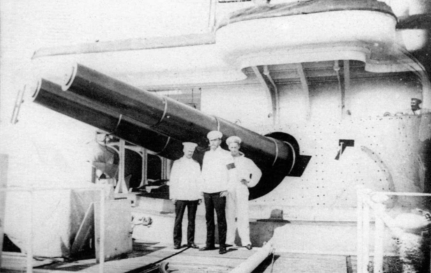 Guns of the Imperial Russian battleship Georgiy Pobedonosets.